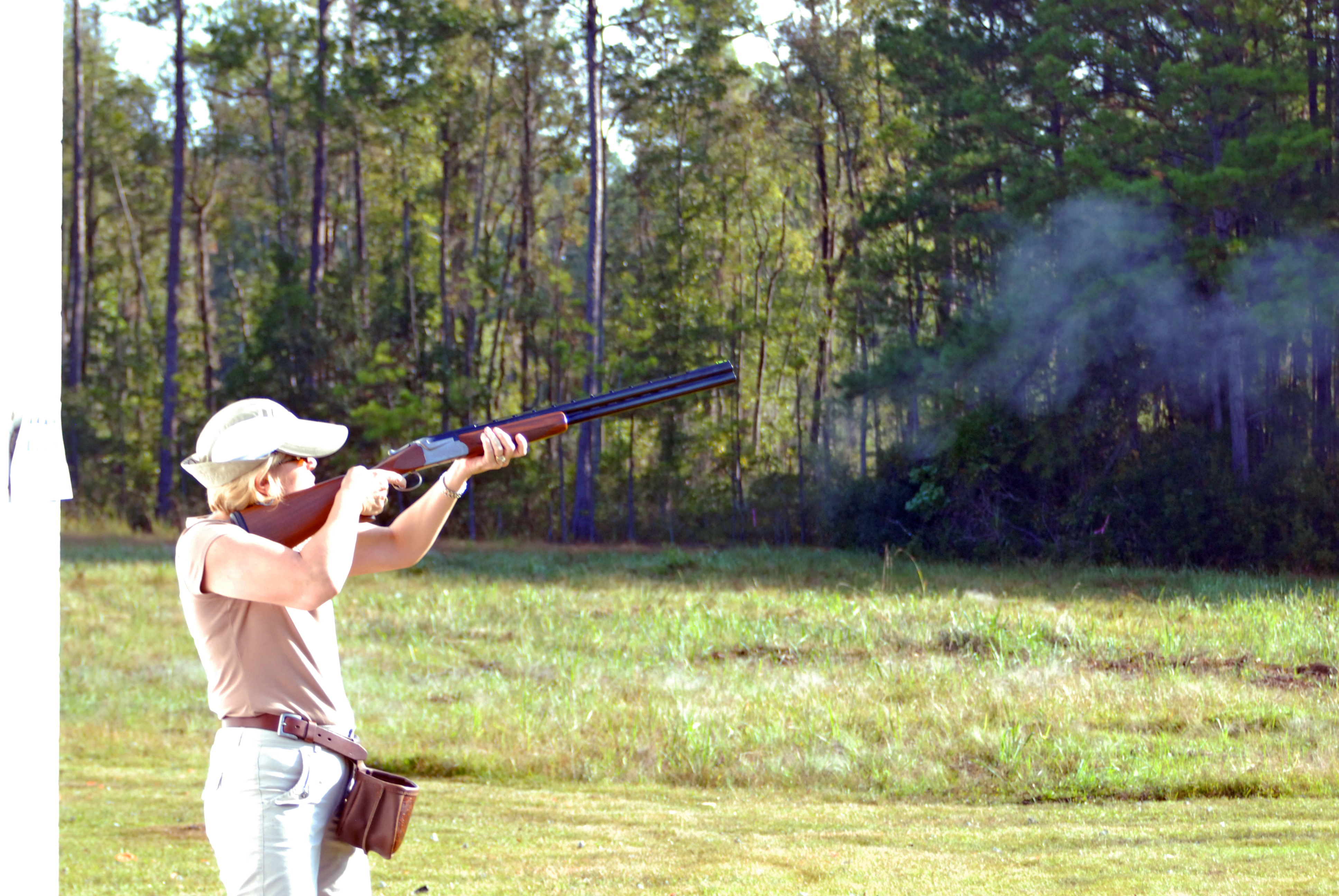 Marne Club member Brenda Julian, nails a clay pigeon with her over/under 12 gauge shotgun during the 50 Bird Skeet Tournament, held at Fort Stewart's Skeet Range, Sept. 19. Julian was the only lady competing in the Annie Oakley division. Thirty-one Soldiers, Family Members and members of the Marne Club competed for a title in the Bullwinkle (Youth), Annie Oakley (Ladies), Iron Mike (Novice), Dog Face (Intermediate) and Rocky (Expert) divisions.